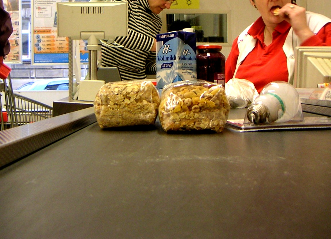 Conveyor belt in a supermarket in Germany